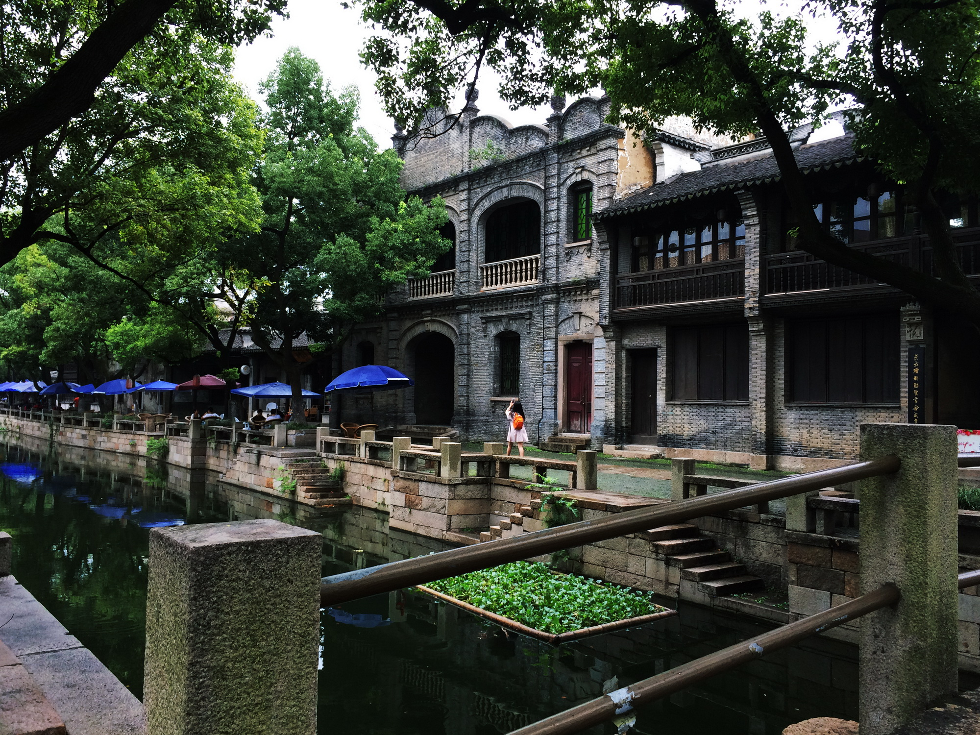 Young tsung-han's ancestral temple, It's a rare Western-style building in Huishan Ancestral hall complex. Young tsung-han, Li Hung Chang's aides and staff.